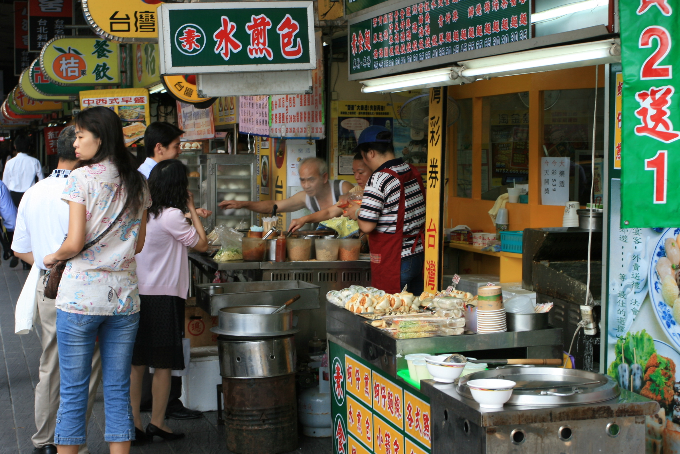 A view of people lined up for breakfast at a street vendor in Taipei.